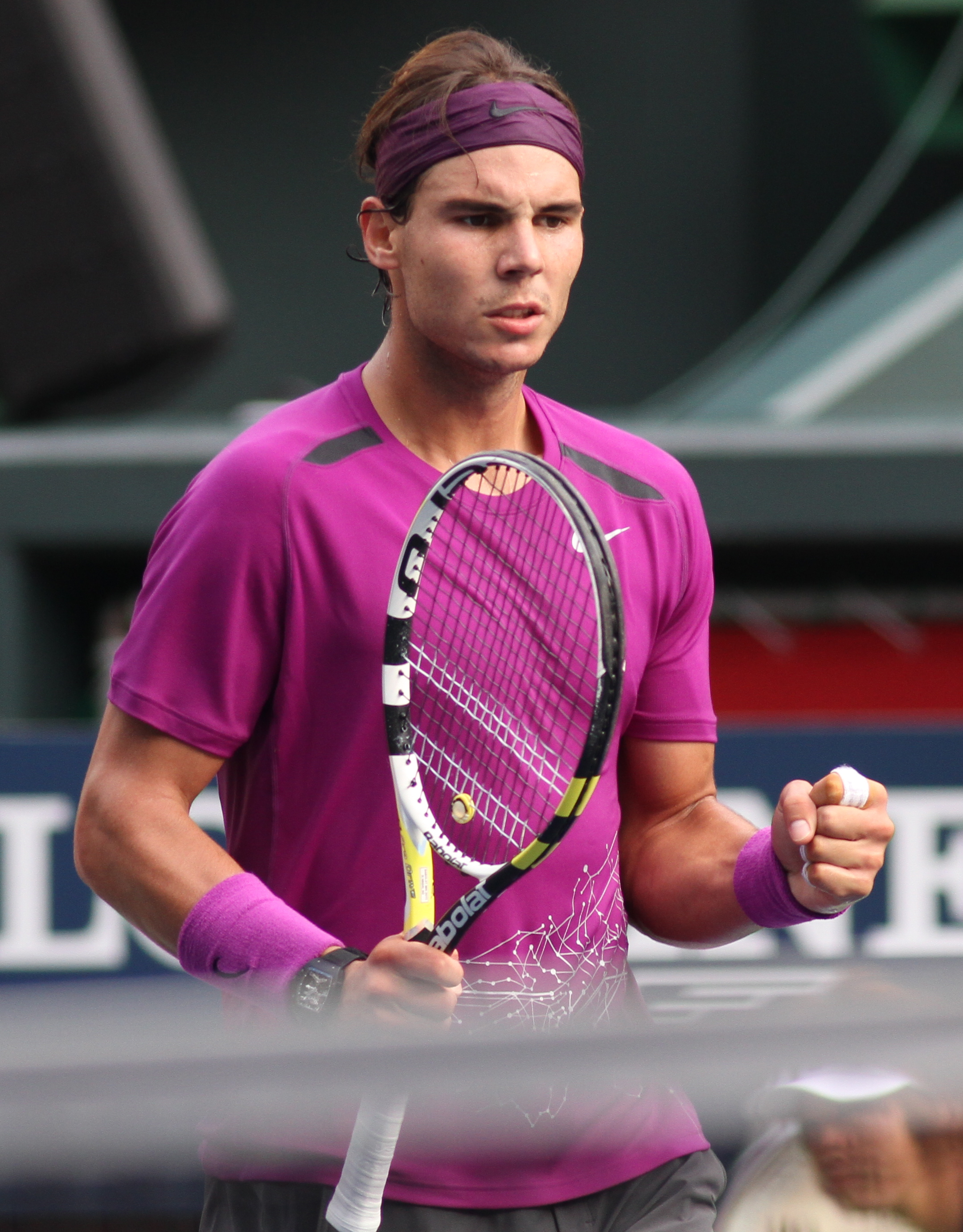 Rafael Nadal at 2011 Rakuten Japan Open Tennis Championships